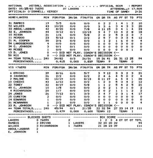 Facsimile of the official scorer's report for Game 3 of the 1983 NBA World Championship Series between the Philadelphia 76ers and the Los Angeles Lakers.